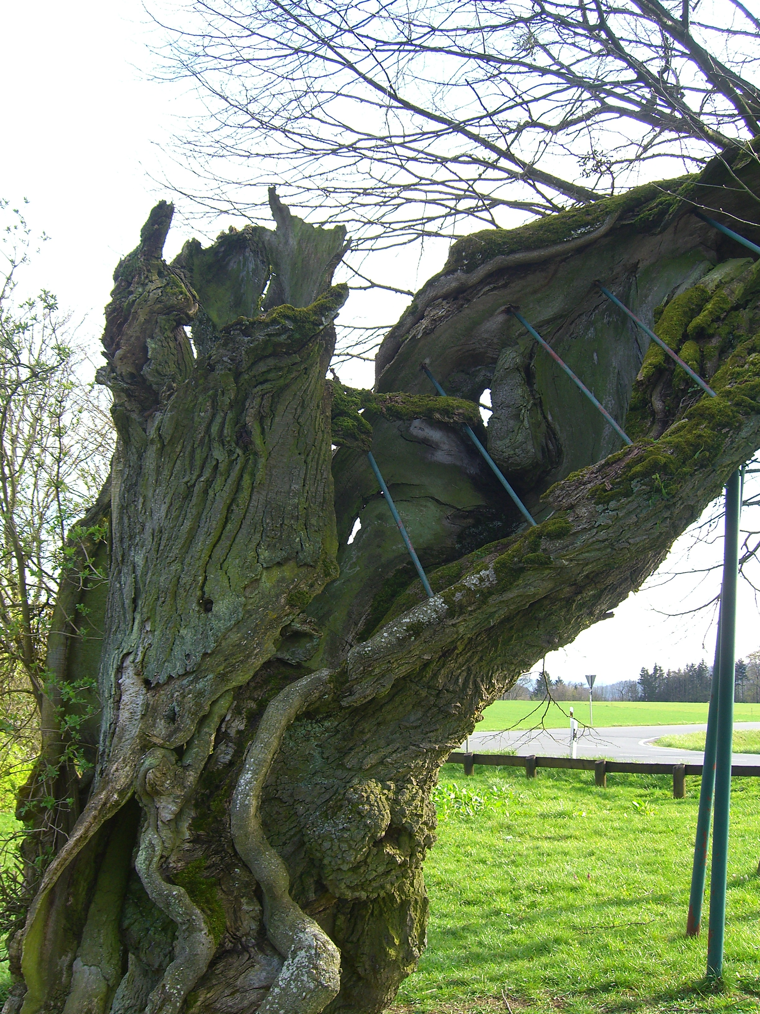 The hollow bole of the leaveless old Kasberg lime tree (Kasberg is a small village near Gräfenberg, Germany) in spring 2007. The tree is believed to be thousand years old. The bole is mostly rotten so the tree isn't stable on its own.